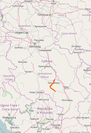 OpenStreetMap of State Road 38 in Serbia.